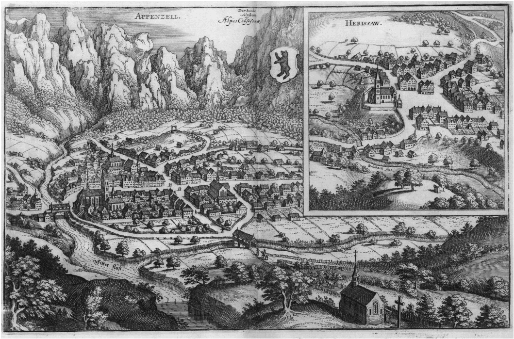 This is a scan of the historical document